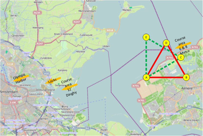 Open street map view of the current map of The Netherlands Projected are the 1928 Olympic courses of the 6 & 8 Metre. This map may be incomplete, and may contain errors. Don't rely solely on it for navigation.